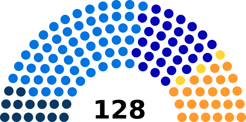 Seats diagramme of Swiss National Council (1869)